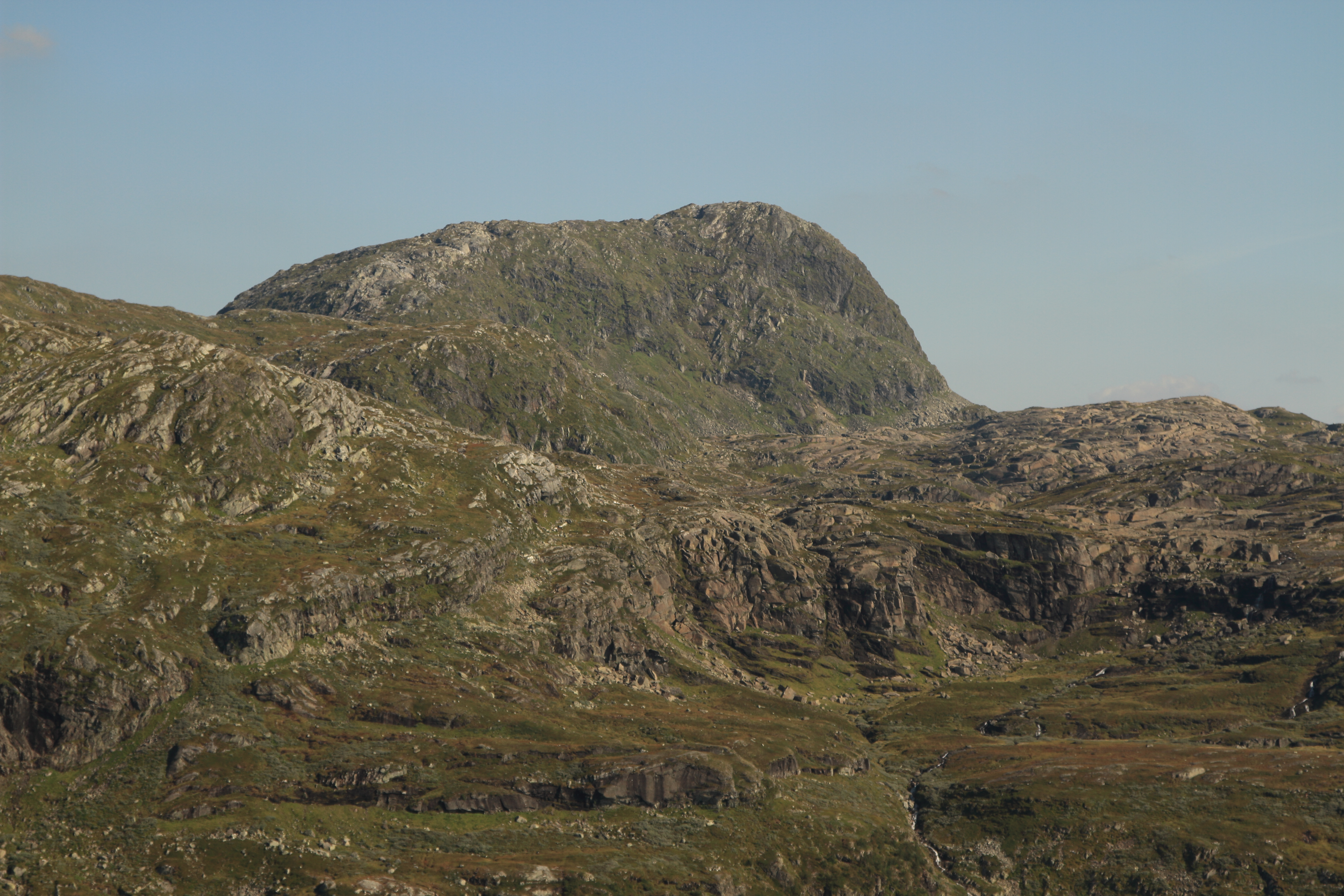 The mountain Napen in Roaland, Norway, from west